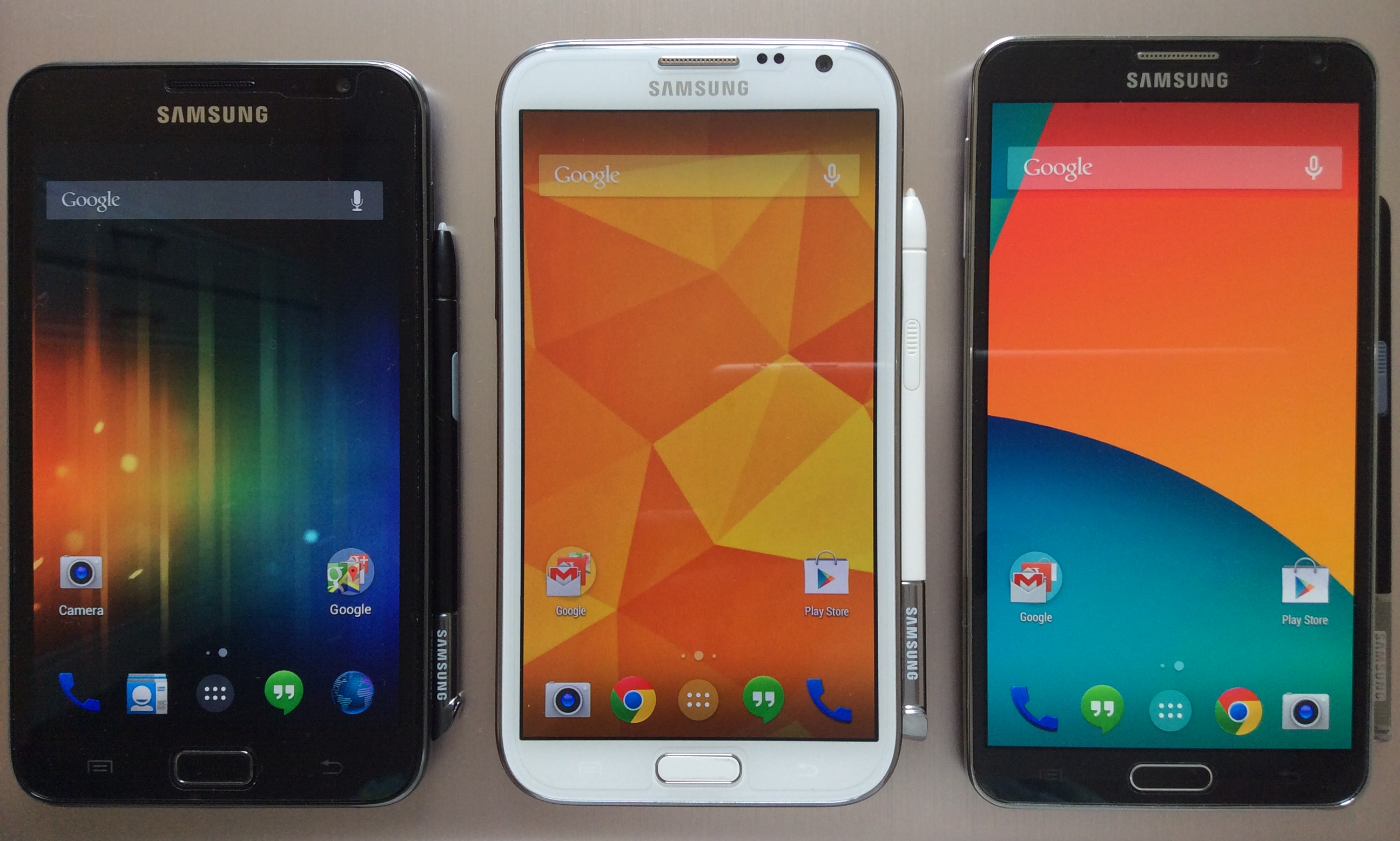 Samsung Galaxy Note series